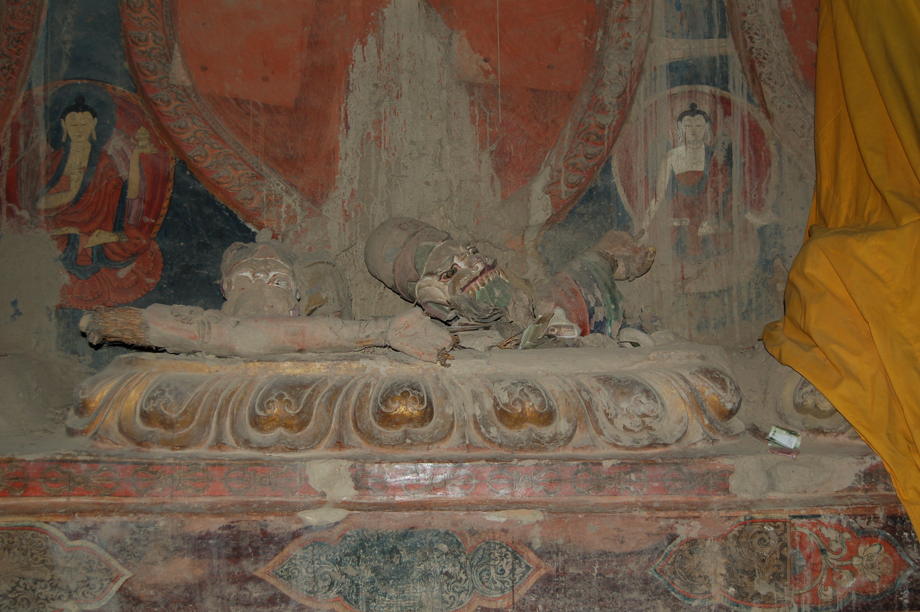 Rest of destroyed holy monuments in Tholing Monastery (Tibet)